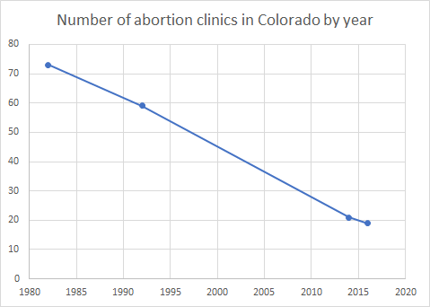 Number of abortion clinics in Colorado by year. Created using data linked on .